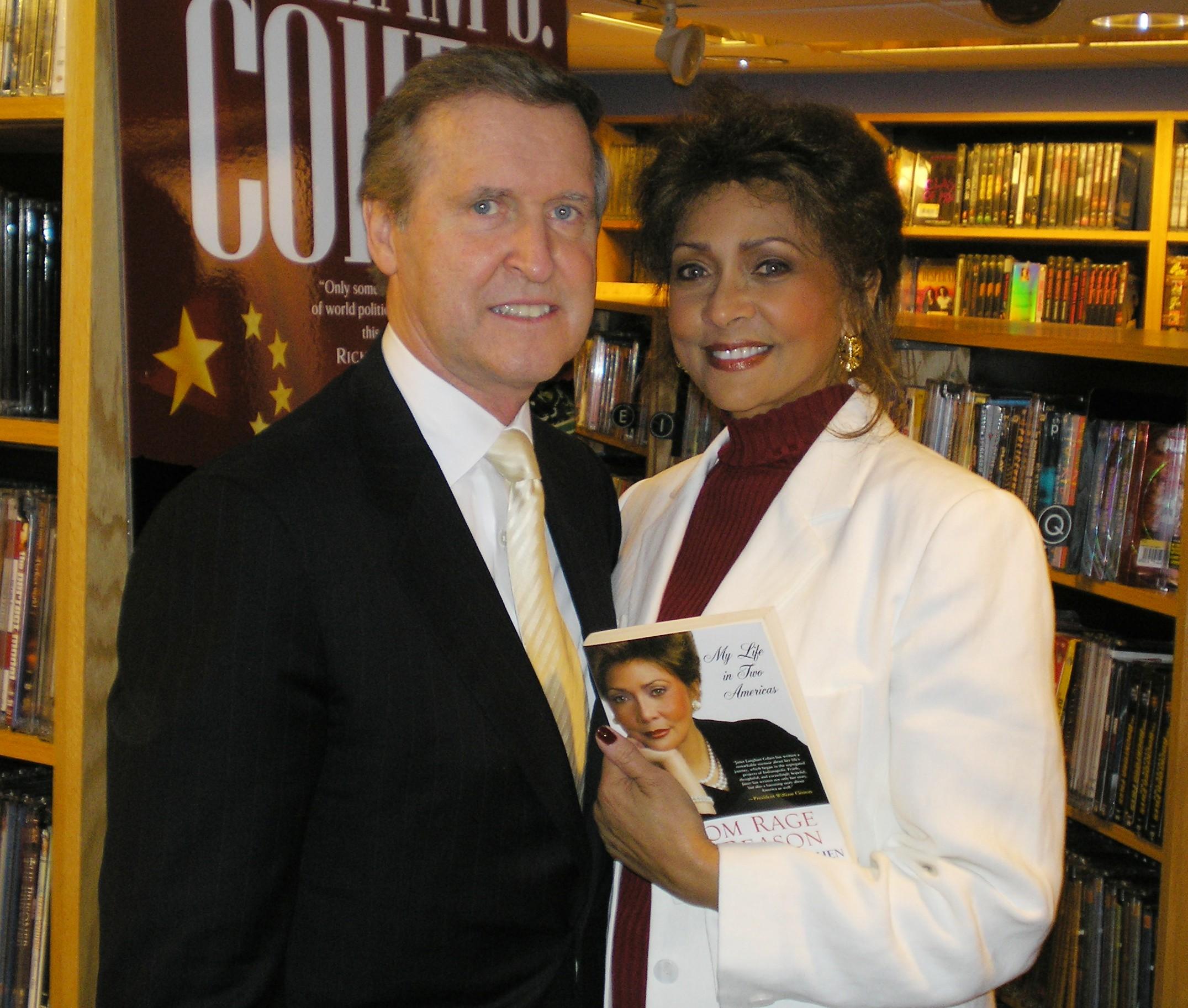 William Cohen and his wife, author Janet Langhart, New York City.